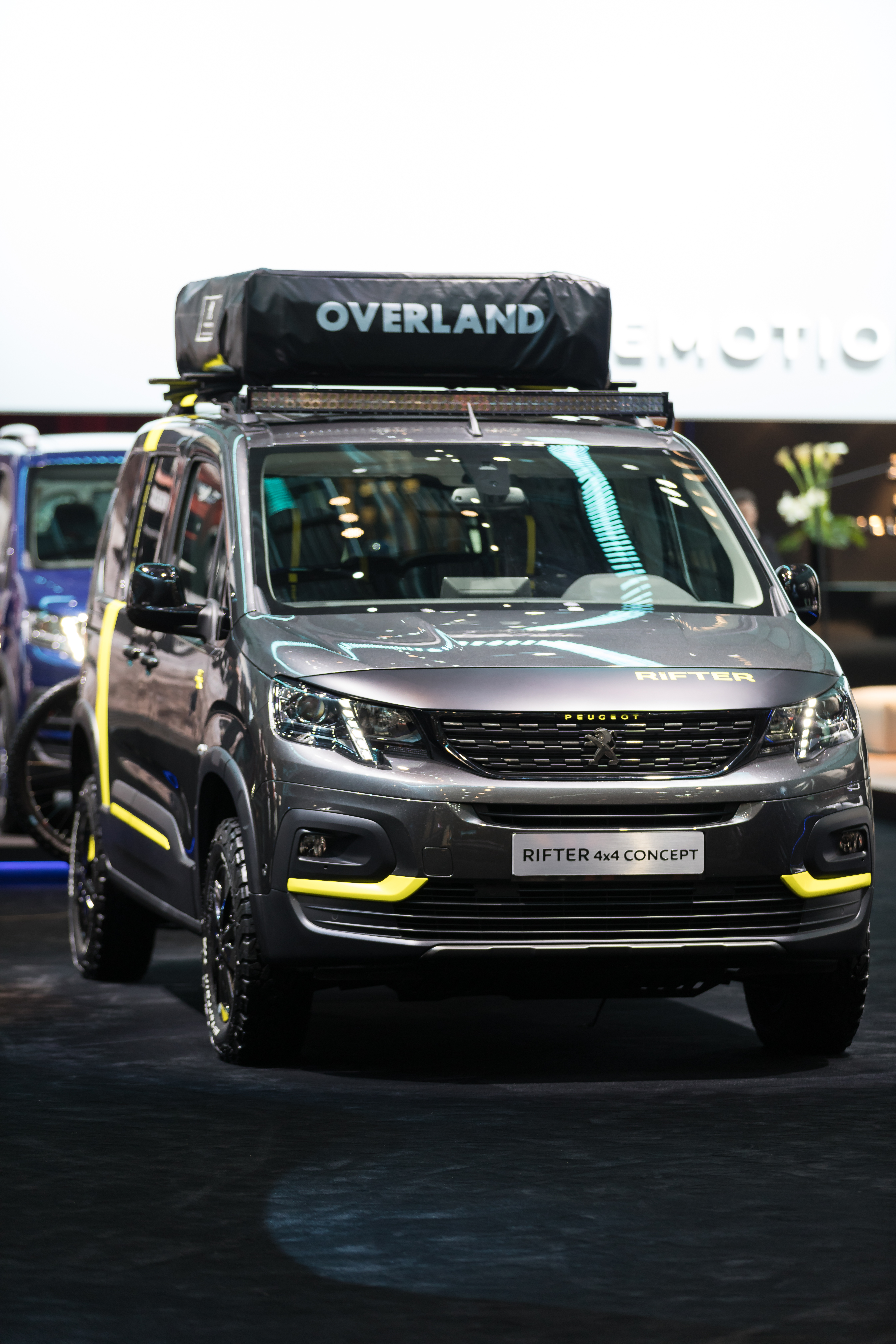 Geneva International Motor Show 2018